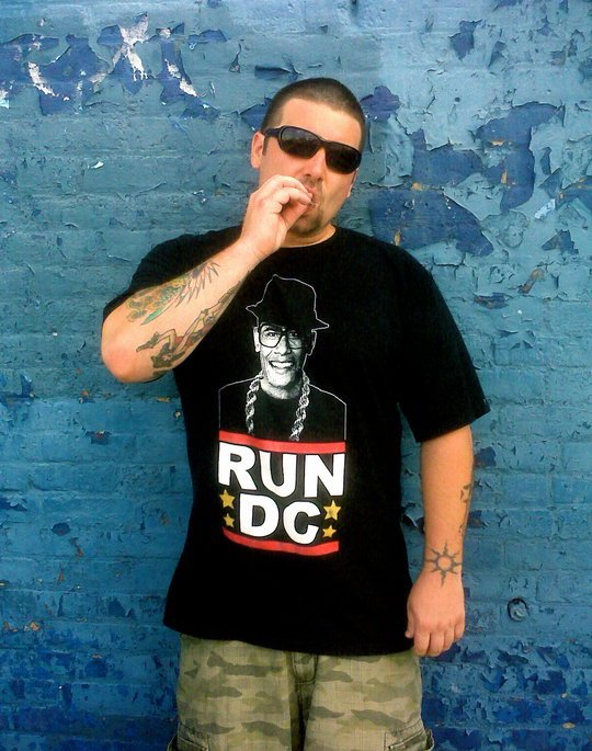 Straight chillen